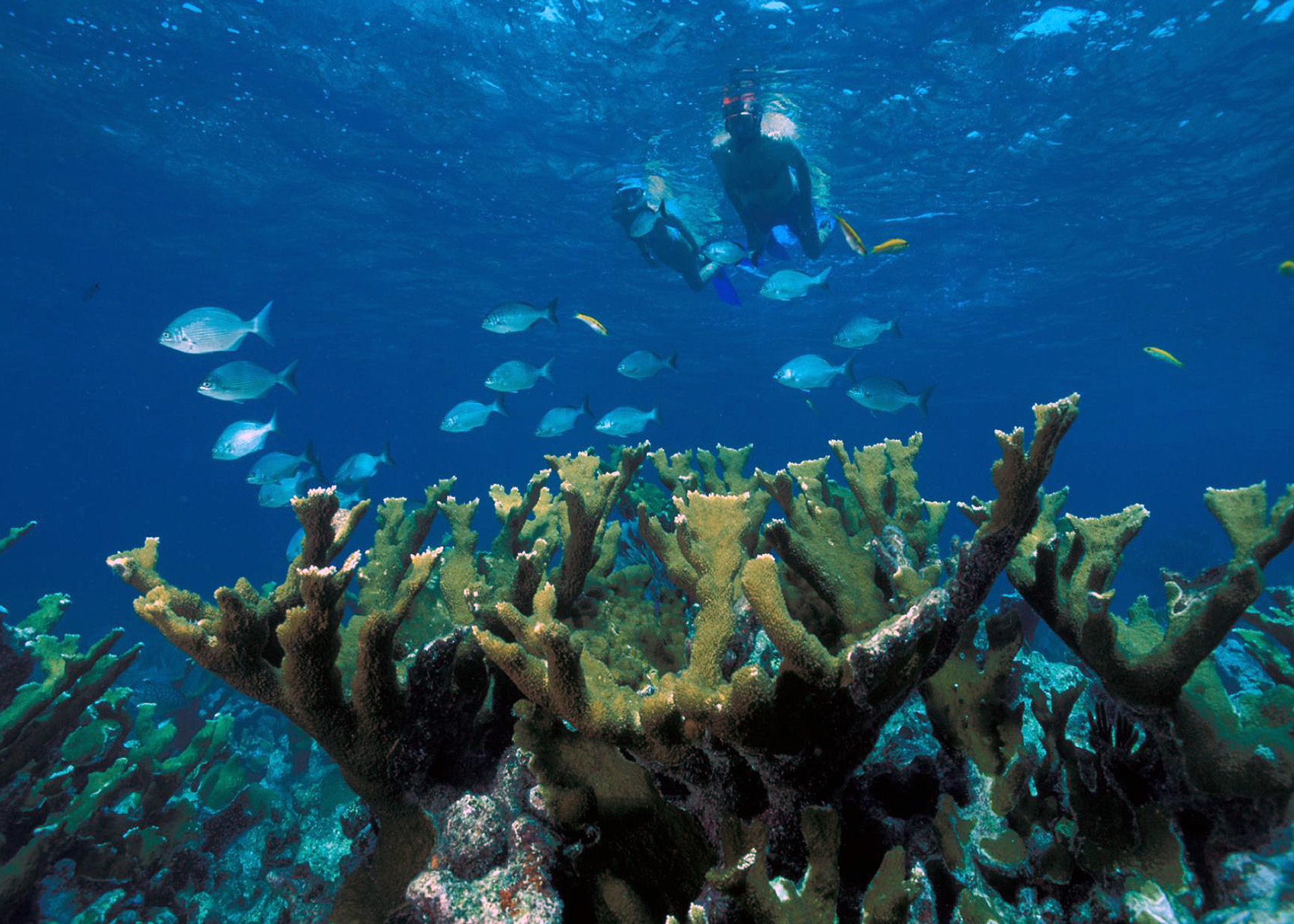 Snorkelers and elkhorn coral at Biscayne National Park, Florida, USA